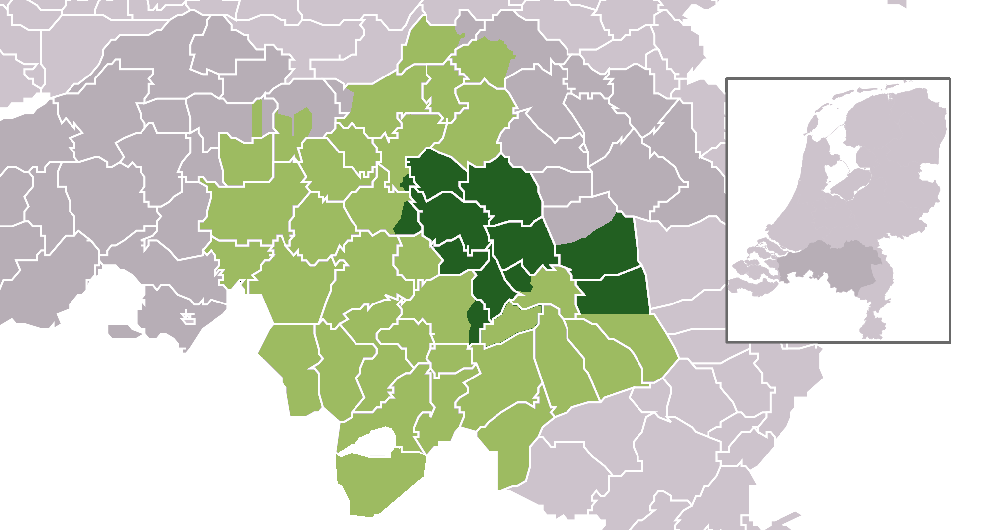 County of Rode in the historical Meierij van Den Bosch' Location maps for the 441 municipalities in the Netherlands. Boundaries 1/1/2009 Automatically generated with script File name contains "Municipality codes" (CBS-code) as specified in: [1] Created in svg using coordinate data derived from ESRI data published by Centraal Bureau voor de Statistiek, Voorburg/Heerlen. ([2]) Color coding and original design by user Mtcv (2006/2007) ([3])